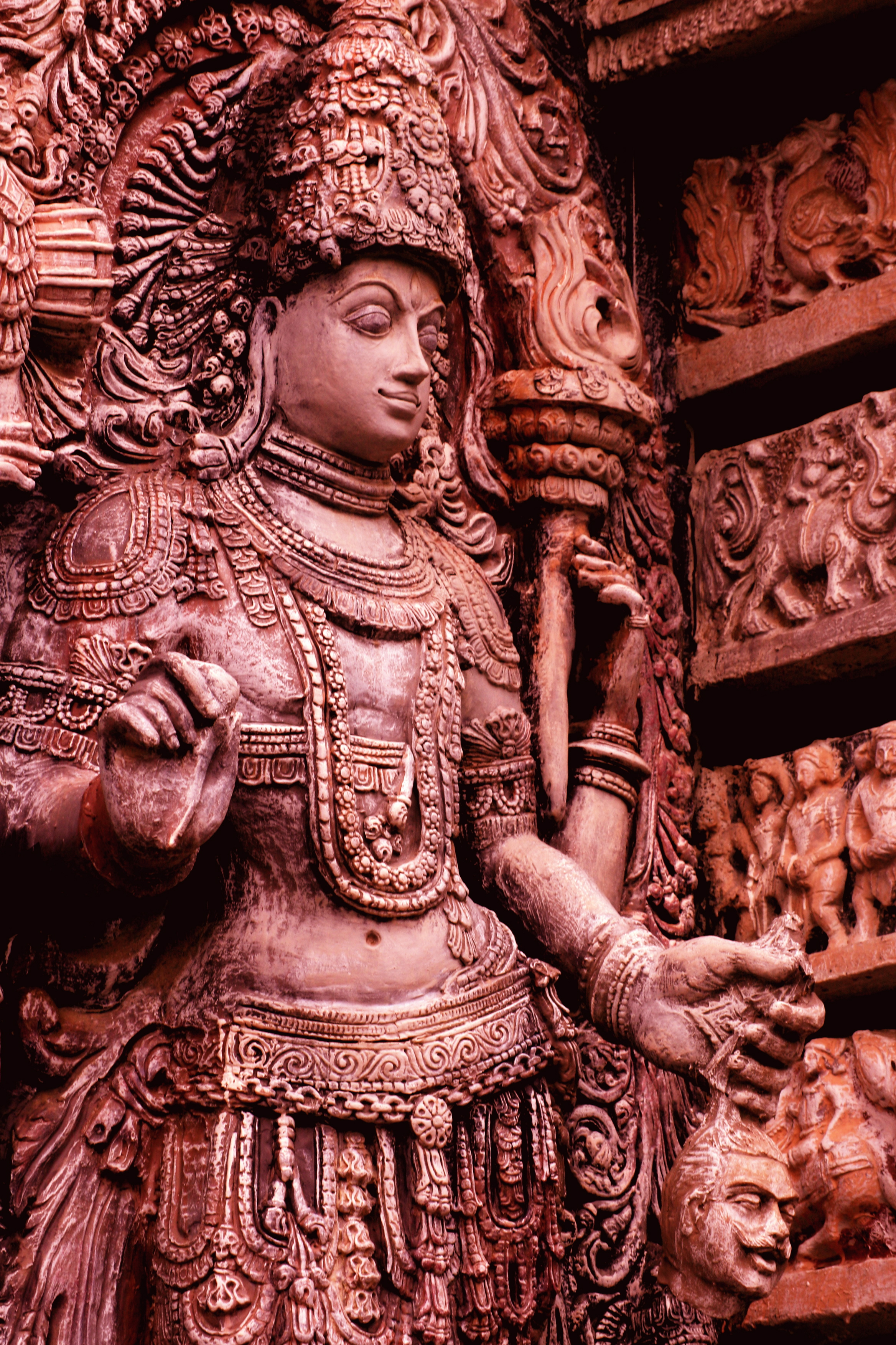 Sculpture of Hindu deity Shiva